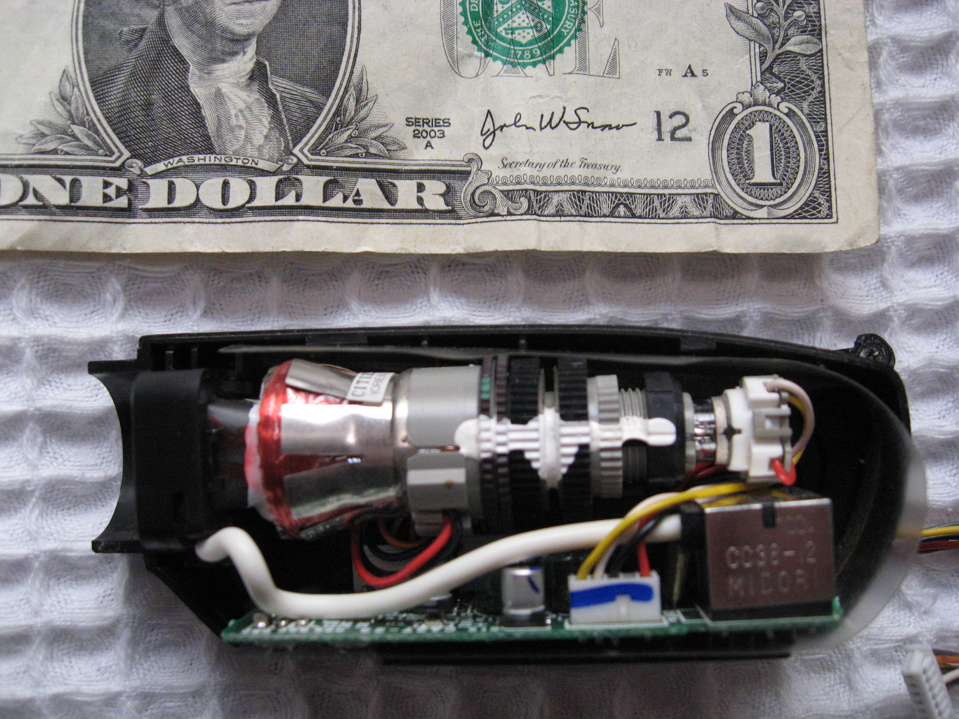 Cutaway of the CRT viewfinder mechanism, from an old video camera. It's next to a dollar bill to give an idea of its size.